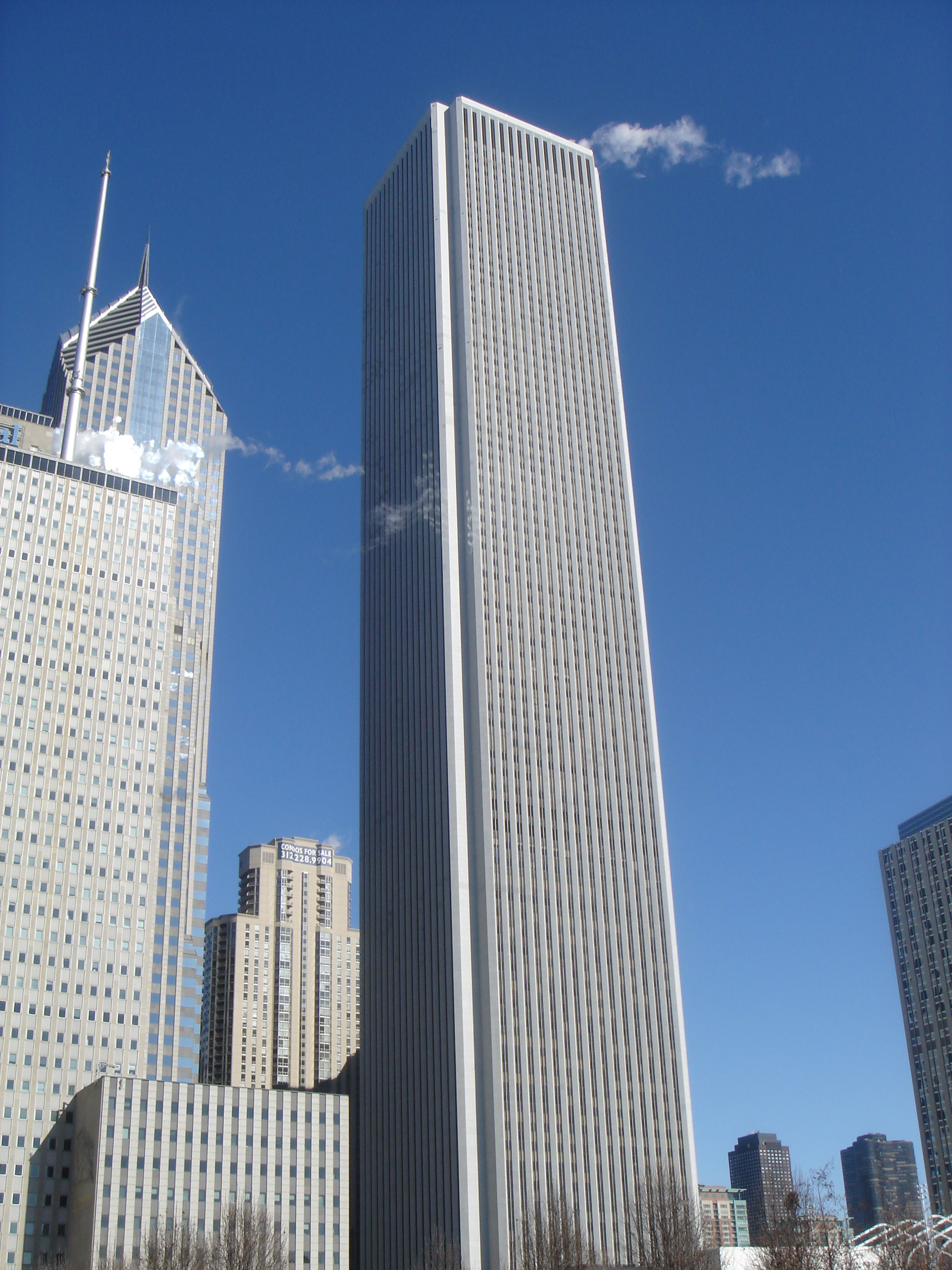 Aon Center, Chicago, Illinois, USA.